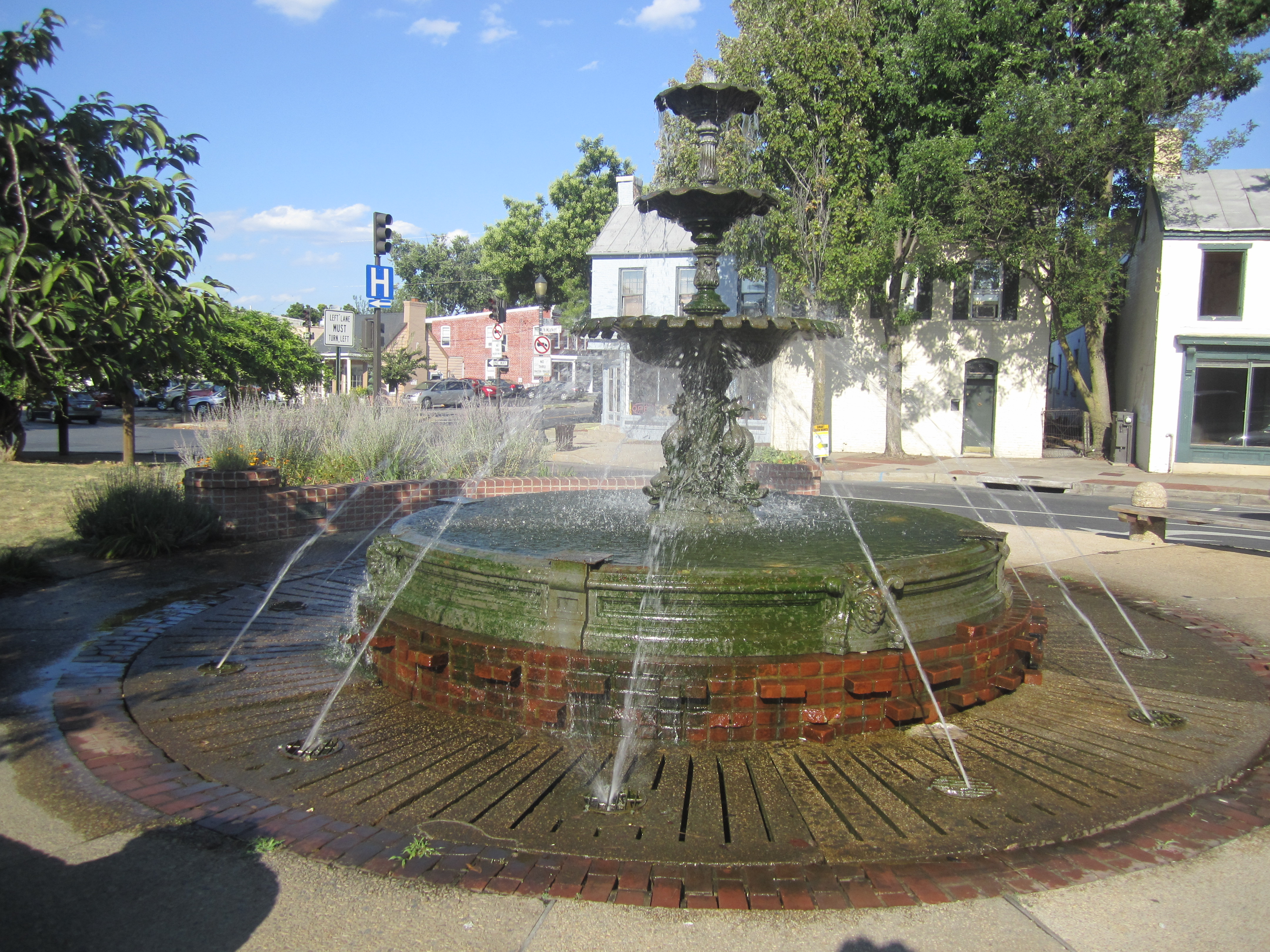 I took photo of fountain in Frederick, MD, with Canon camera.